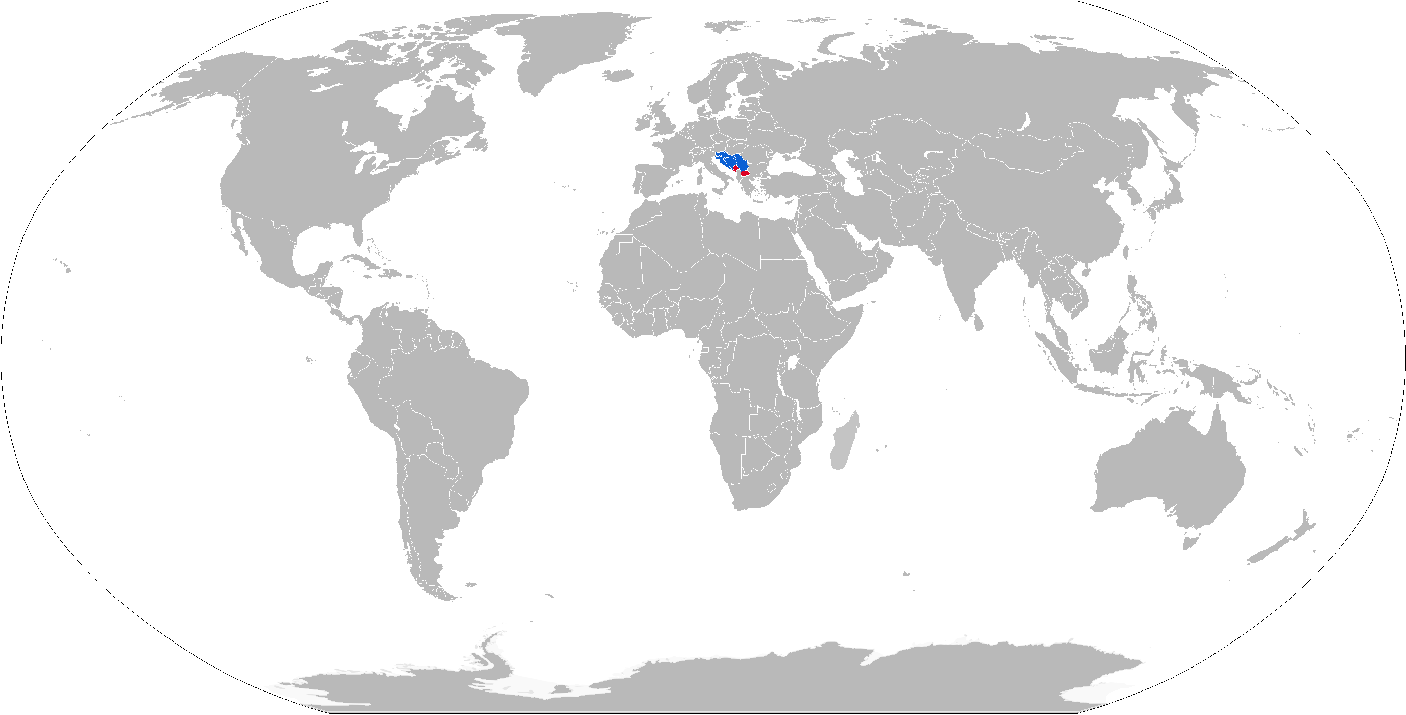 Map of BOV operators in blue with former operators in red